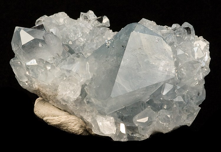 Celestine Locality: Sakoany deposit, Katsepy Commune, Mitsinjo District, Boeny Region, Mahajanga (Majunga) Province, Madagascar (Locality at ) Size: 7.0 x 5.2 x 4.8 cm. Ice-blue, gem-like, water-clear celestine crystals attractively fill a vug lined with smaller celestines on this fine specimen from the Sakoany Mine of Madagascar. The large crystal is 3.2 x 2.8 cm. Sakoany celestines are considered to be amongst the finest in the world and this piece is highly representative of the species and locality.